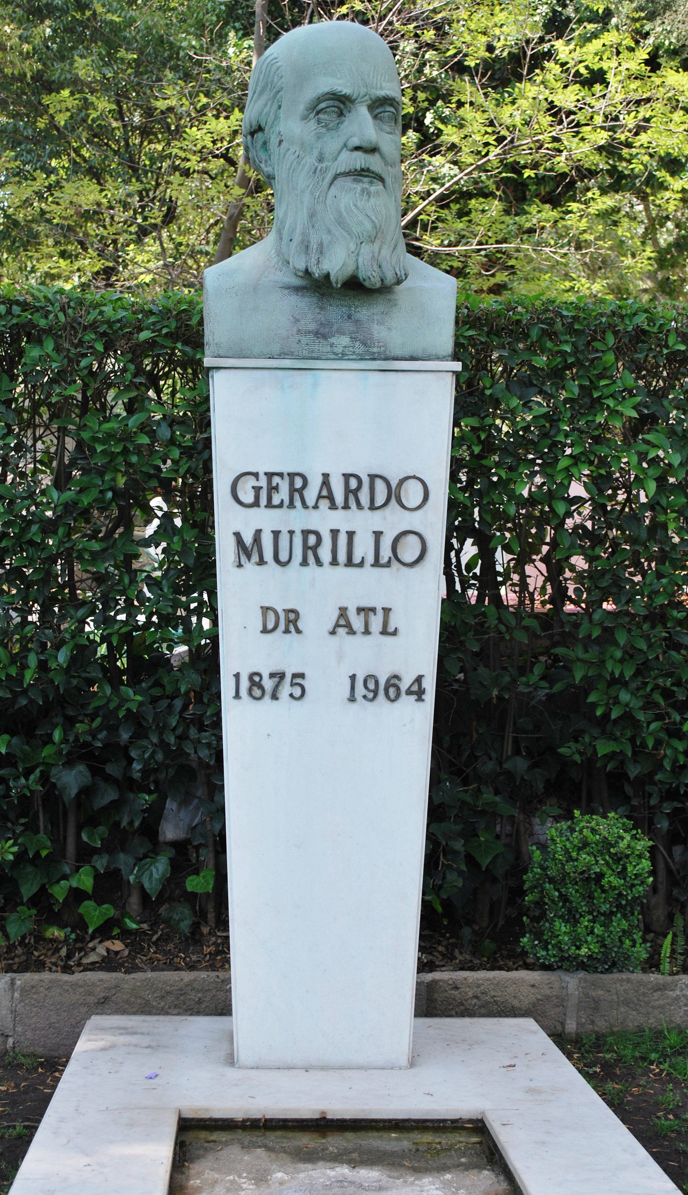 Tomb of Gerardo Murillo − Dr. Atl — at the Panteon Civil de Dolores cemetery in Mexico City.